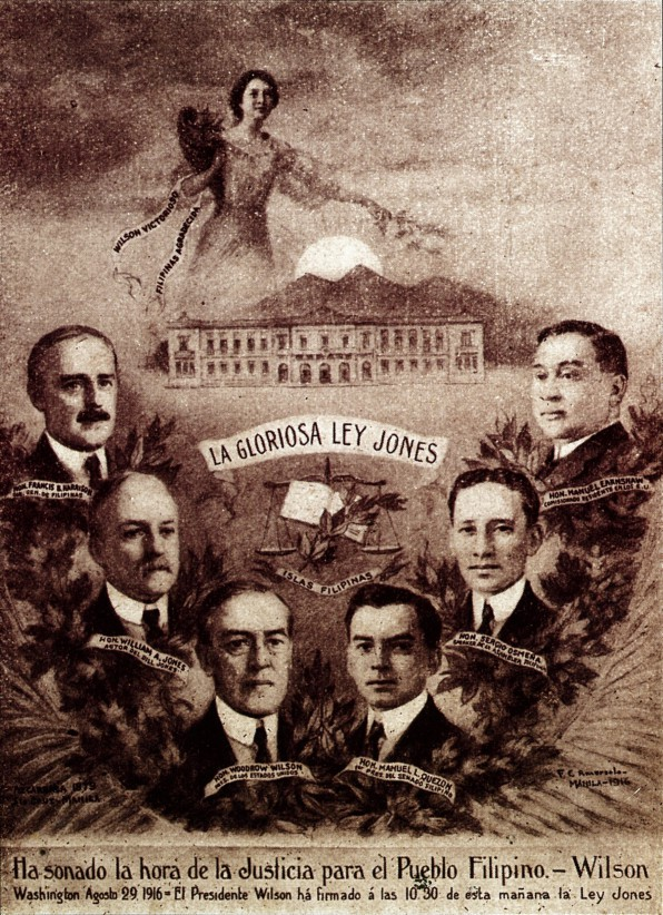 A poster advertising the Jones Law of 1916 "La Gloriosa Ley Jones" "Ha sonado la hora de la Justicia para el Pueblo Filipino–Wilson Washington Agosto 29, 1916 – El Presidente Wilson há firmado á las 10.30 de esta mañana la Ley Jones